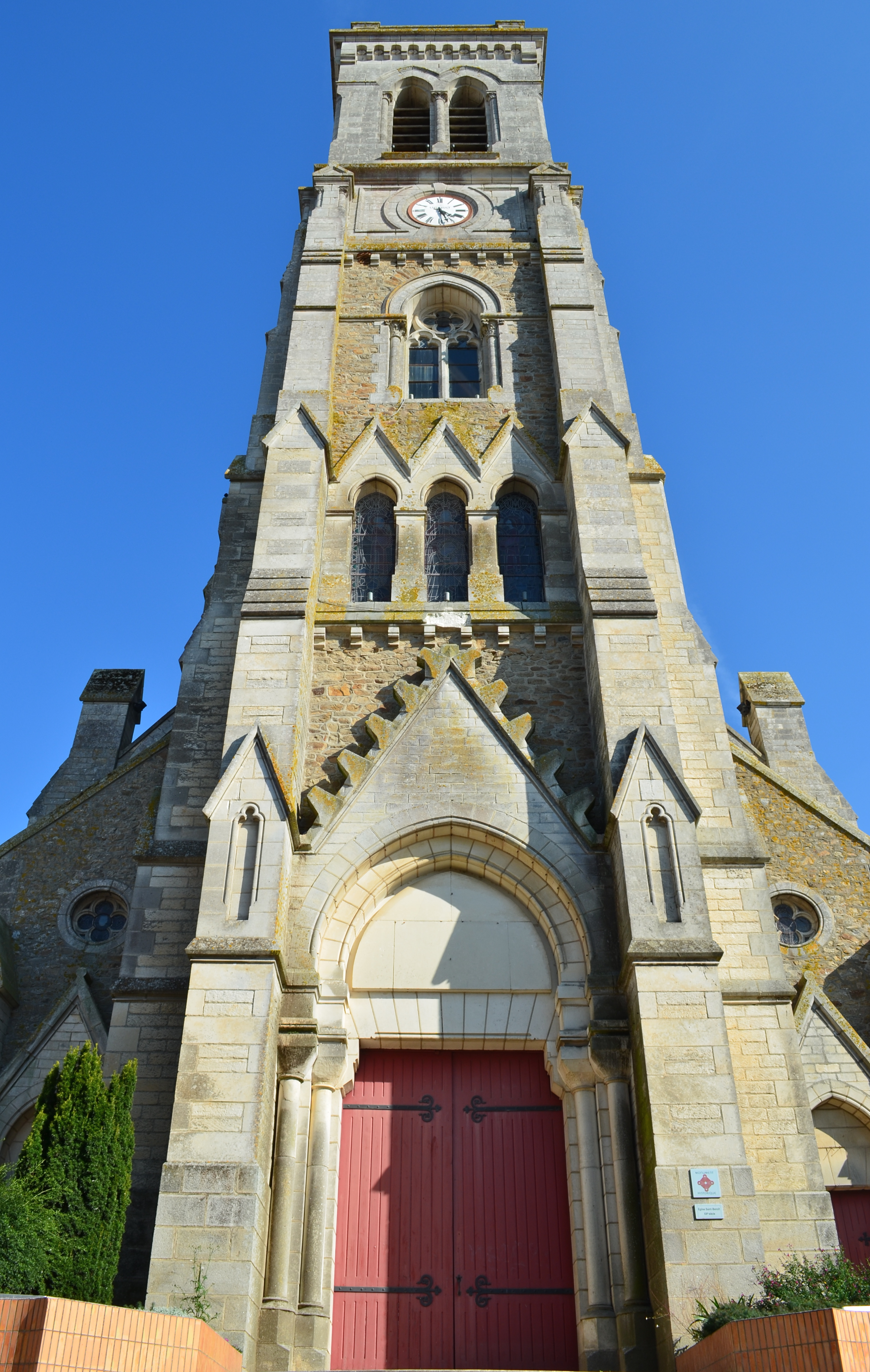 Saint-Benoît church, built from 1904 to 1905 by architect Alcide Boutaud - Aizenay (Vendée, France) .